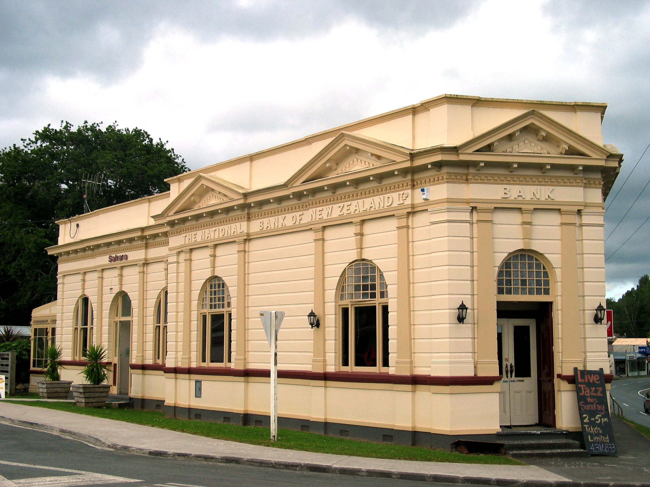 Former National Bank of New Zealand, Paparoa, Northland (now a restaurant). New Zealand Historic Places Trust Register number: 3288.